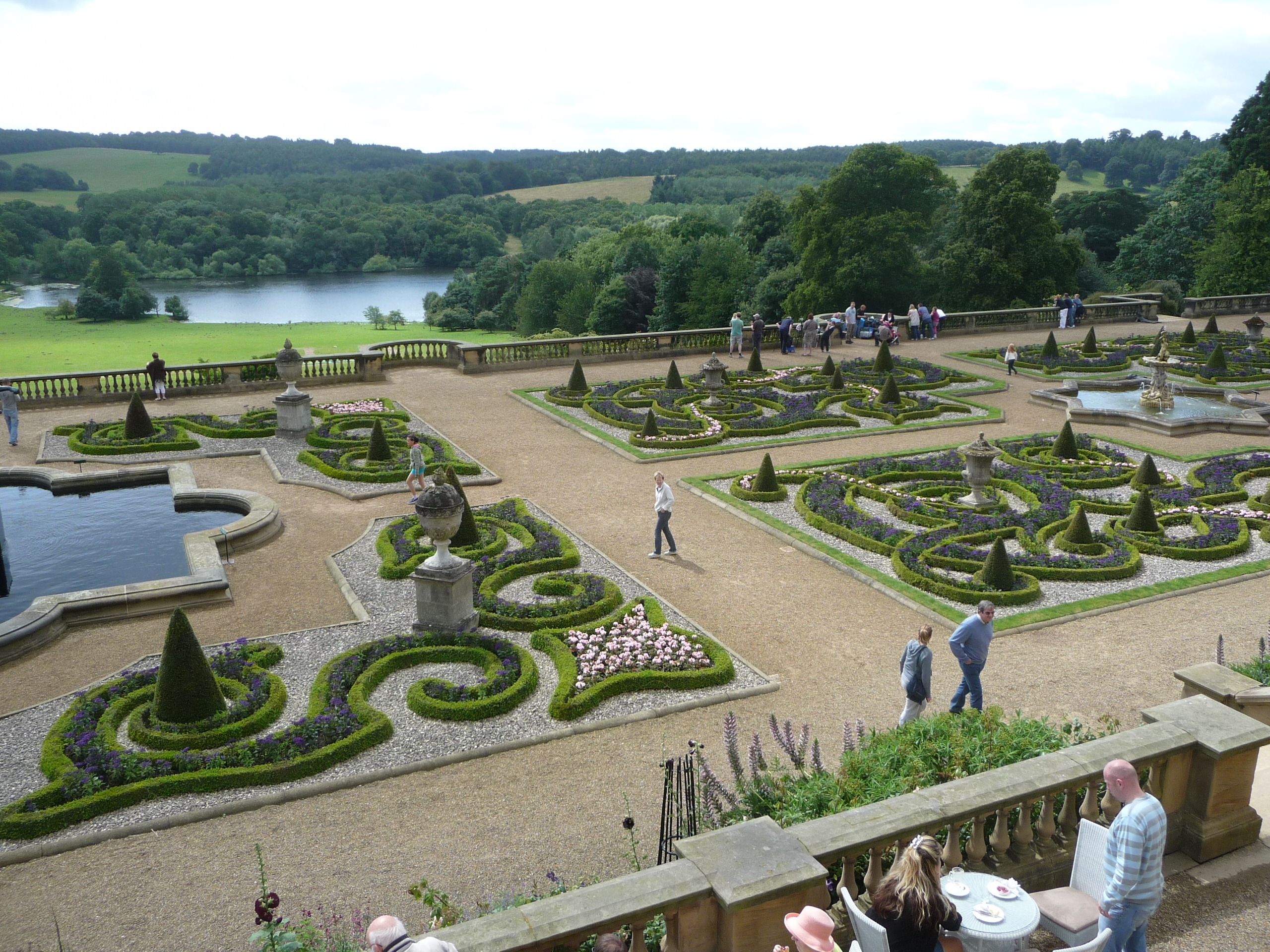 Gardens of Harewood House in Harewood, West Yorkshire, United Kingdom